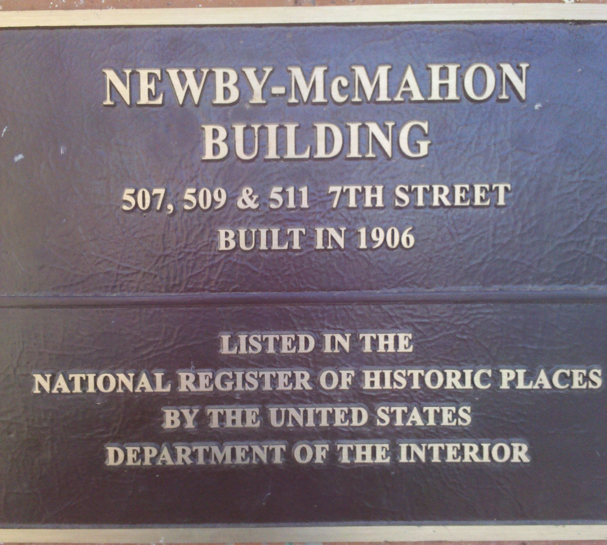 Plaque attached to the Newby-McMahon Building, also known as the "World's littlest skyscraper.